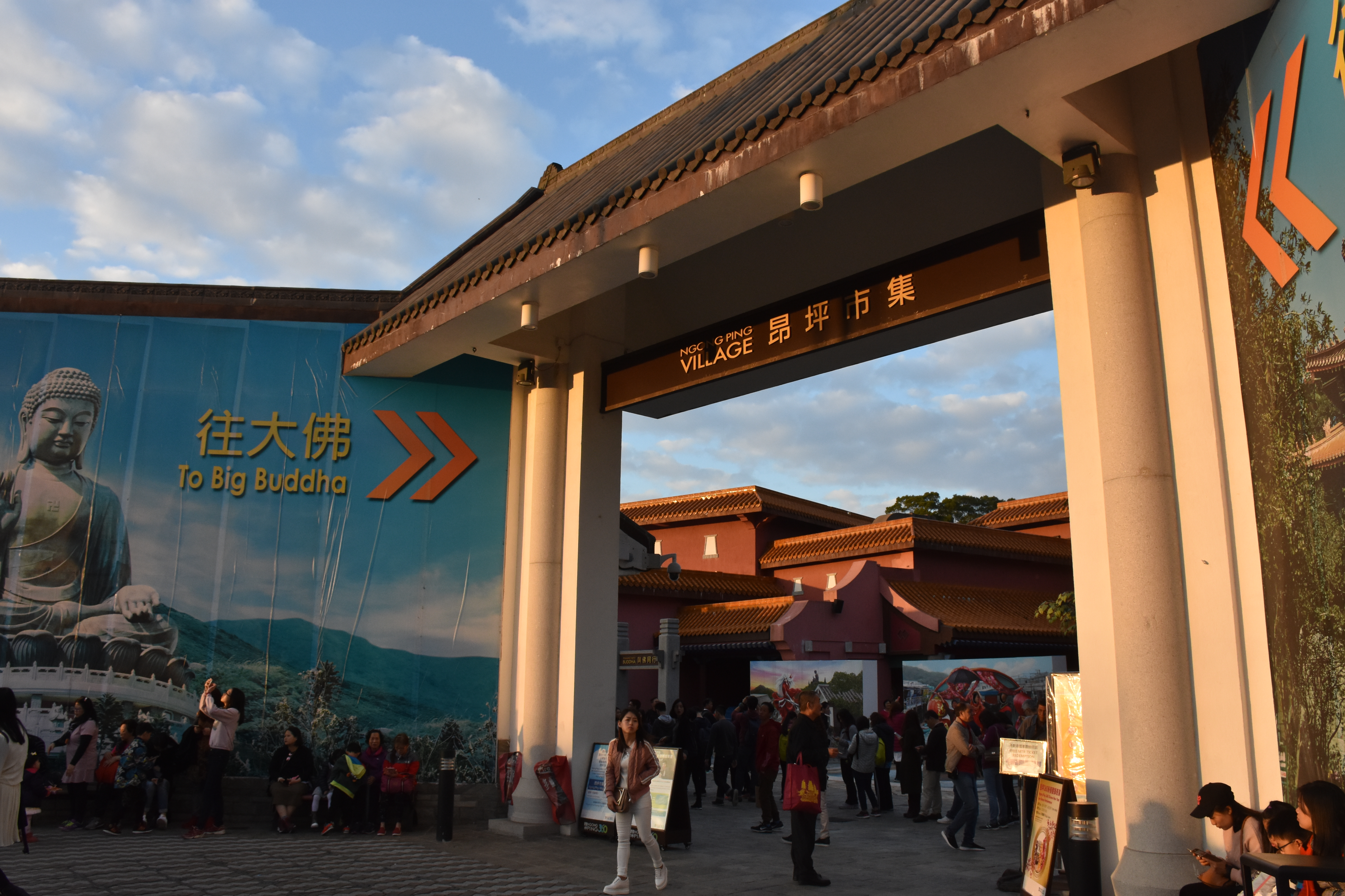 Main Entrance of Ngong Ping Village